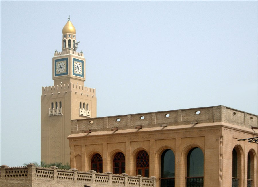 Picture of the clock tower of Al-seif Palace